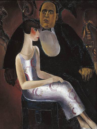 PAUL GUSTAVE VAN HECKE and his wife Honorine Deschrijver by Frits van de Bergh died 1939